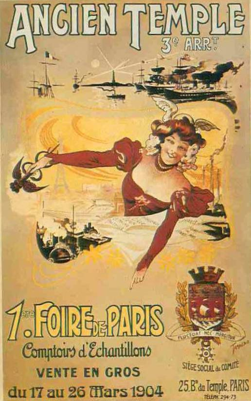 Poster for the first Foire de Paris